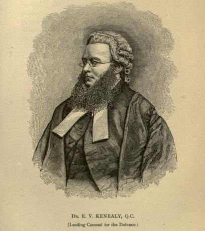 A depiction of Edward Kenealy, Counsel for the defence in the Tichborne perjury trial of 1873-74